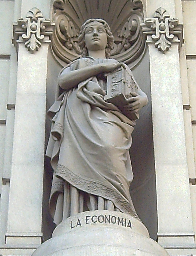 Allegory of Economy, sculpted by José Alcoverro. Detail of the façade of the former Banco Hispano Americano (and now Santander) building at the Plaza de Canalejas (square) in Madrid (Spain), projected in 1902 by Eduardo de Adaro Magro and built from 1902 to 1905.